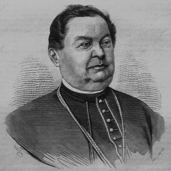 Portrait of the bishop Imre Szabó